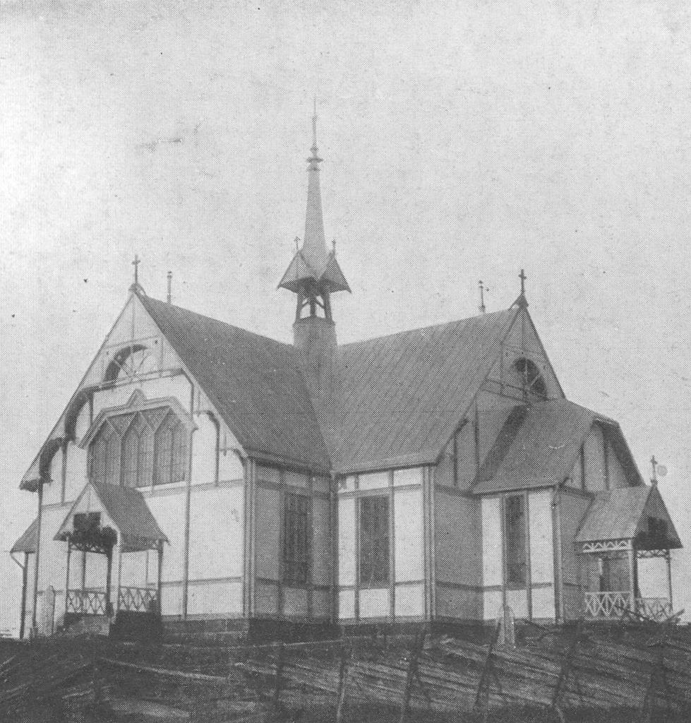 The church of Pulkkila was designed by Josef Stenbäck and built in 1908.